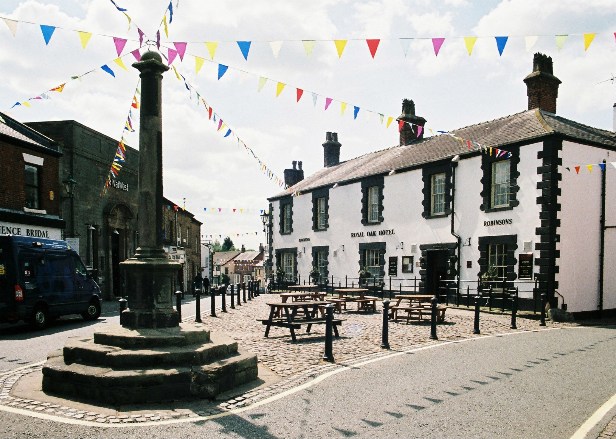 The market cross and Royal Oak in Garstang, Lancashire, England